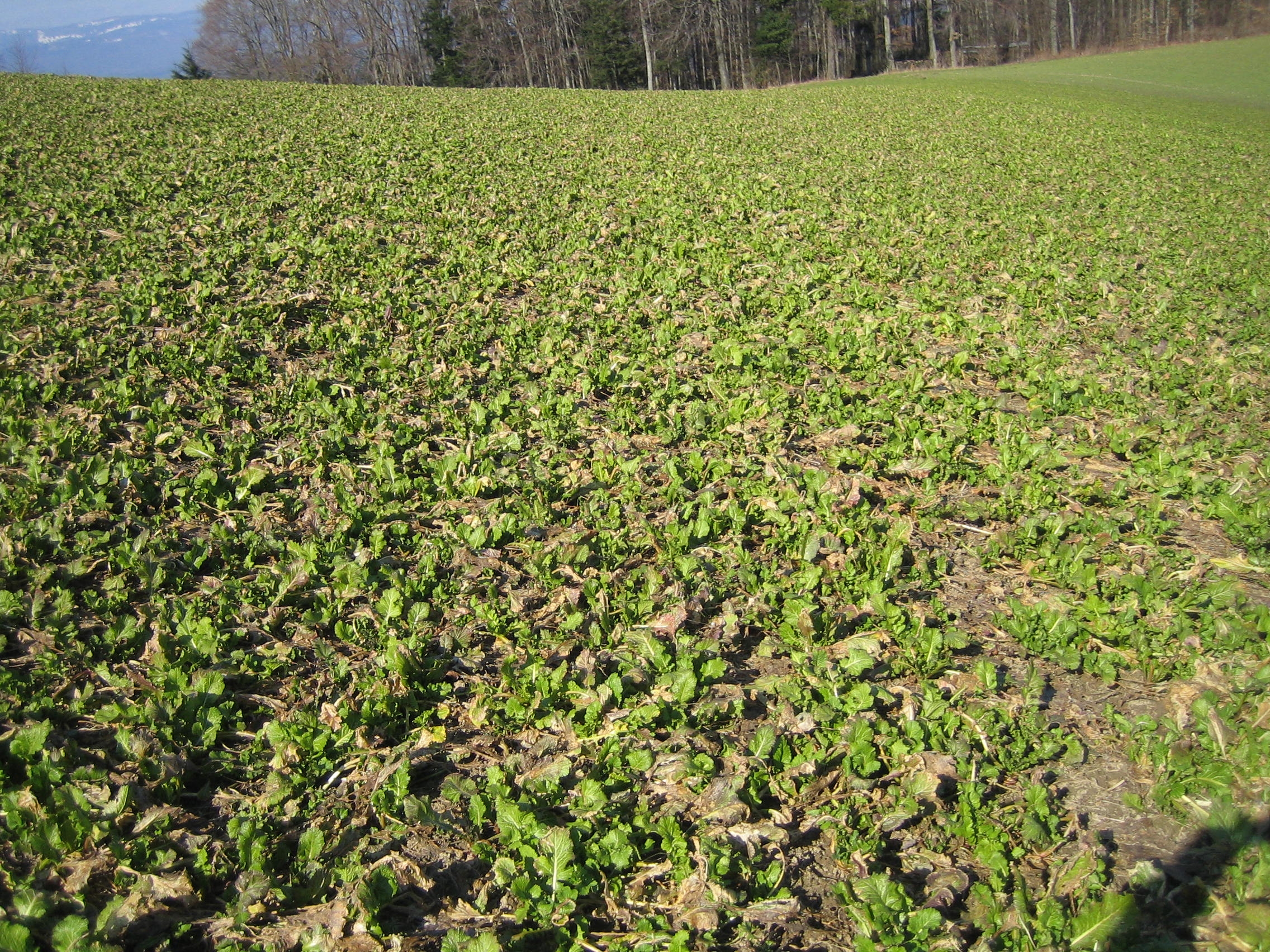 Cover crop, canton of Bern, Switzerland